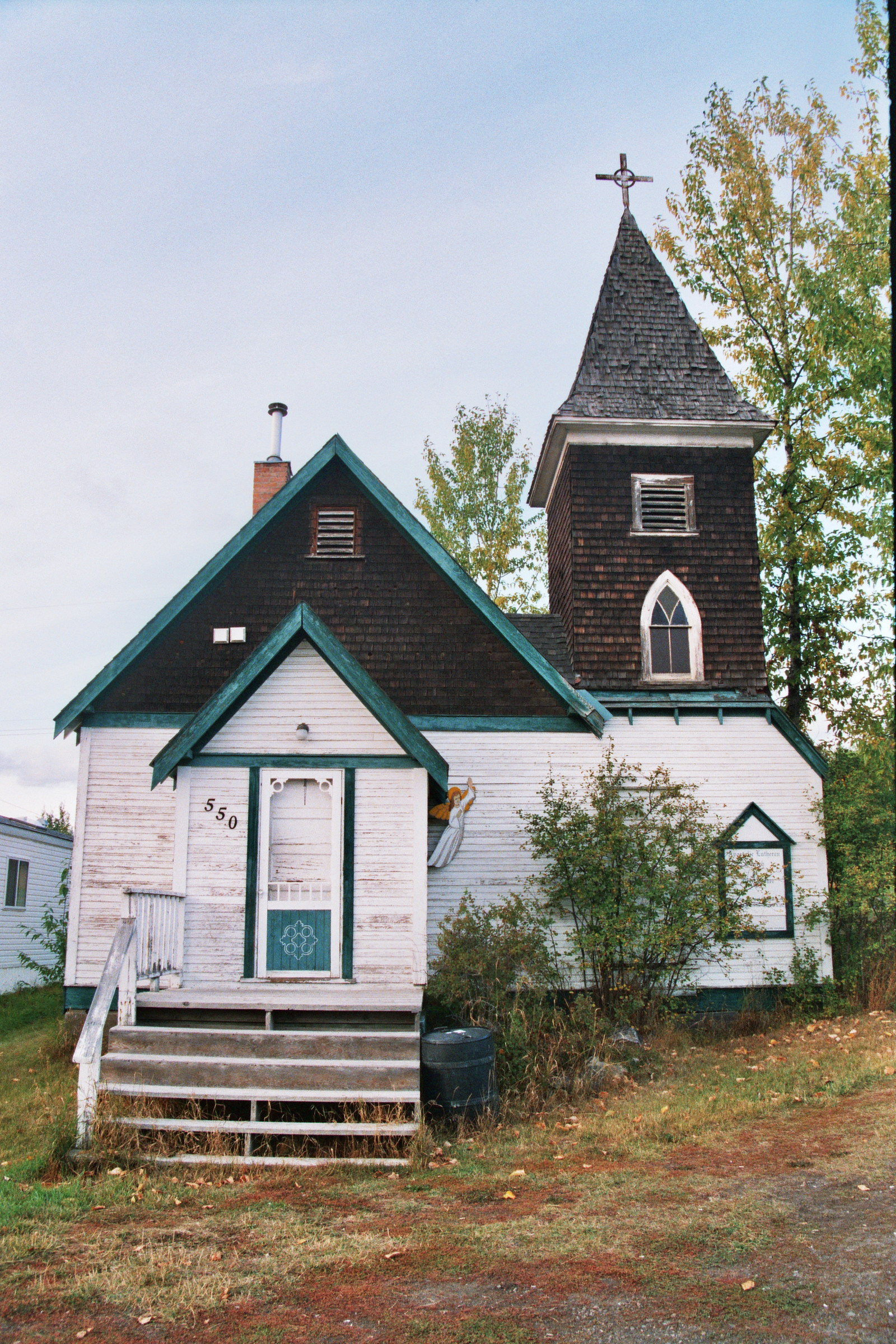 The Apostolic Lutheran Church in Fort Fraser, British Columbia. Established in 1928.